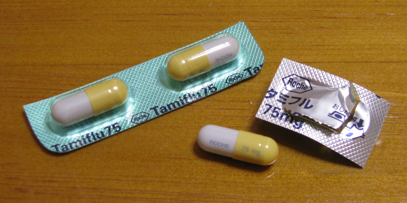 Oseltamivir phosphate capsules Tamiflu Capsules 75 mg. Producted by F. Hoffmann-La Roche, Ltd. Sales licensee in Japan by Chugai Pharmaceutical Co., Ltd.